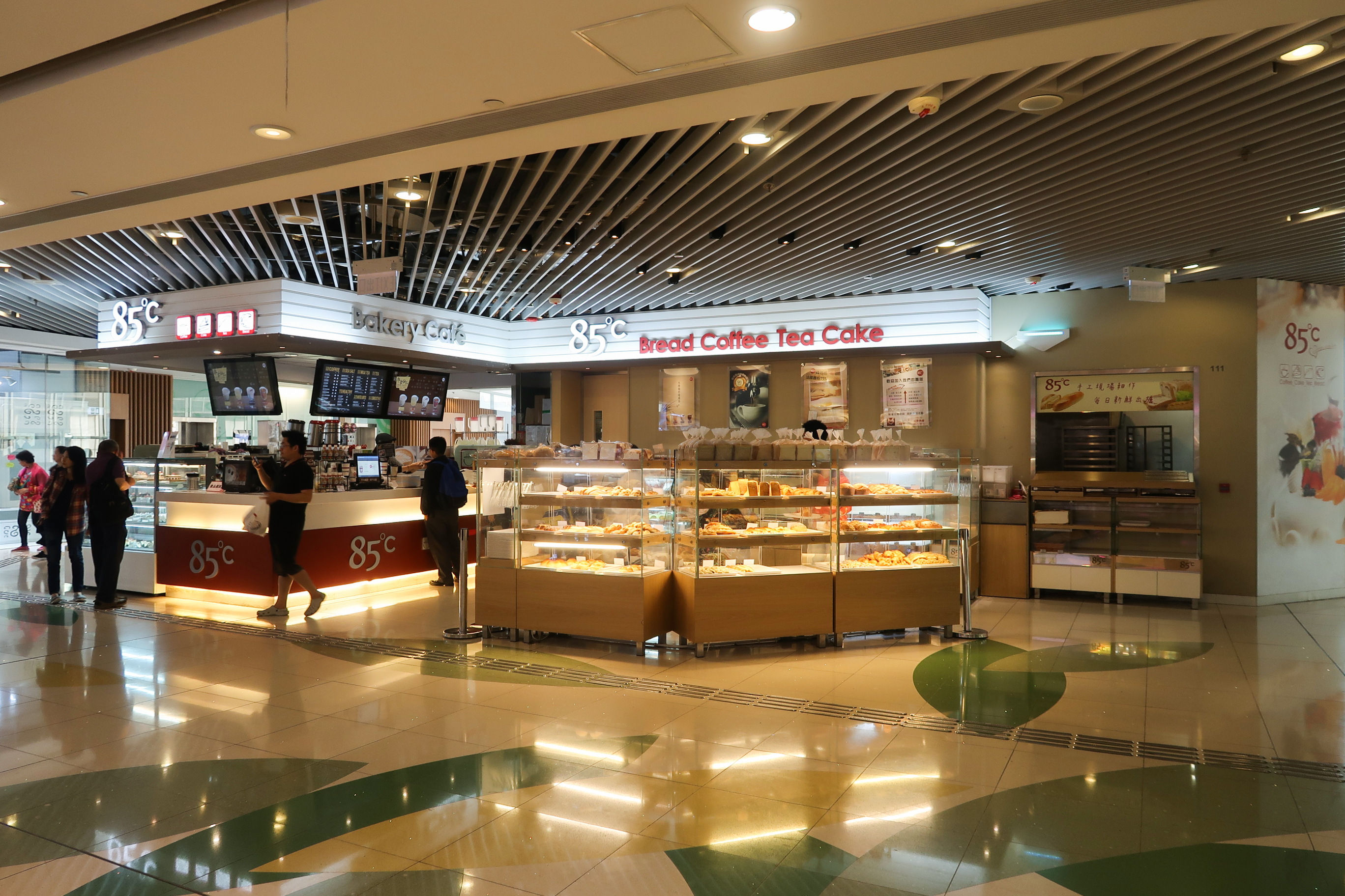 85c bakery cafe in domain mall